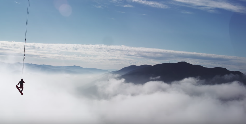 Adrian Wildman Cenni Snowboarding The Clouds